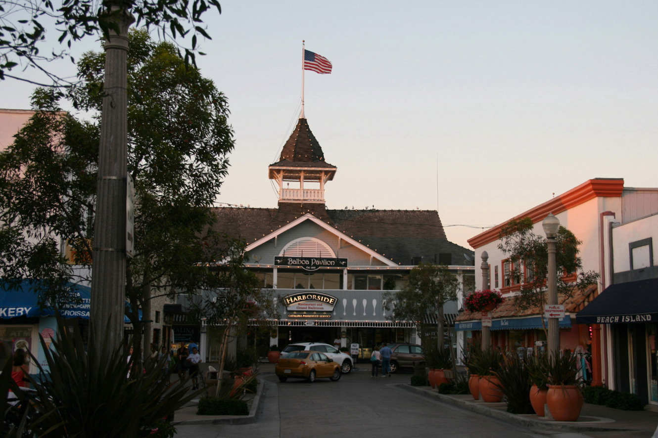 The Balboa Pavilion in Newport Beach, California.